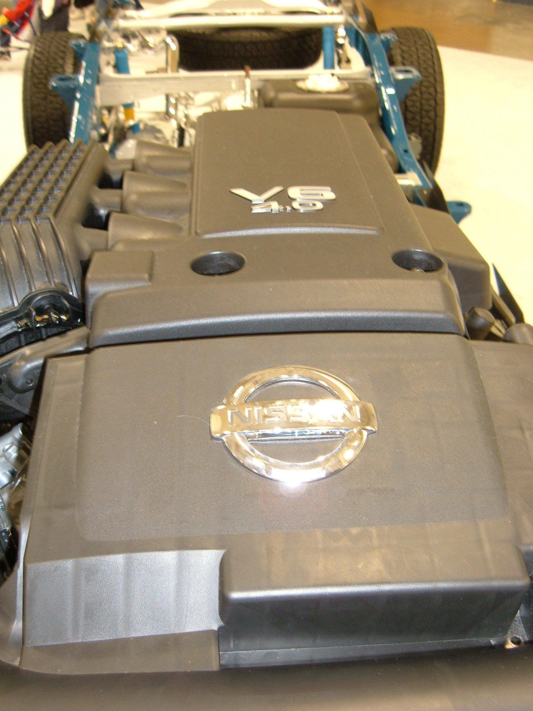 The VQ40DE engine on the chassis at the 2004 San Francisco International Auto Show.